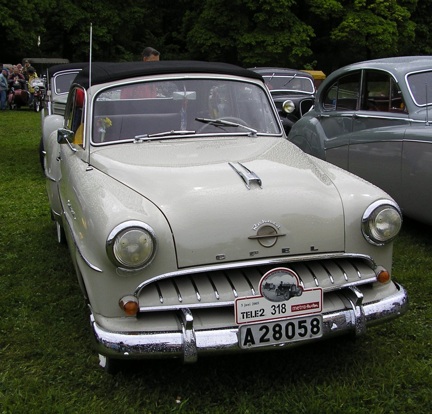 1955 Opel Rekord Cabriocoach. Photographed by myself at Prins Bertil Memorial in Stockholm, Sweden.